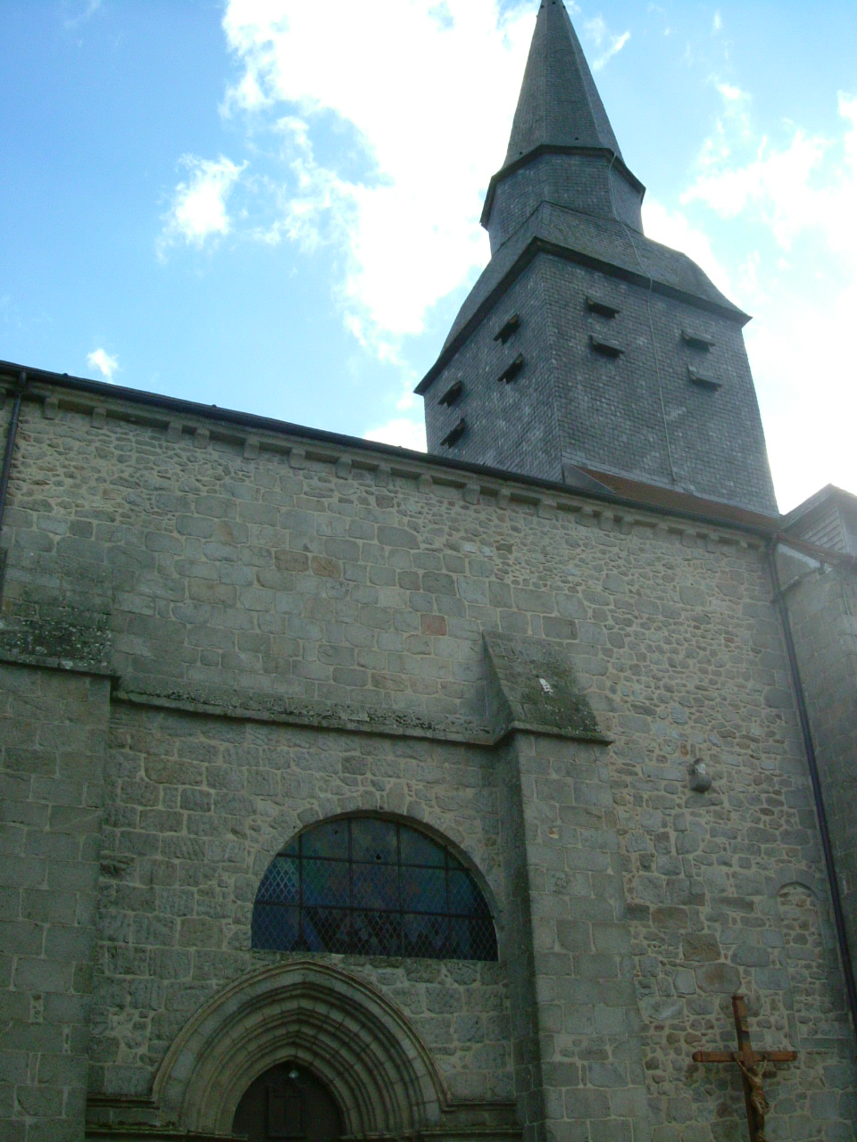 Chenerailles church